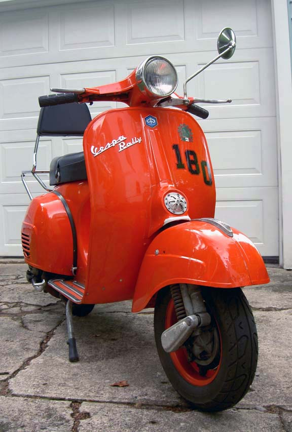 1969 Vespa Rally 180. One of the rarer vintage Vespa scooters as they were only built from 1968 until 1973 and one of 2 models to use a 180cc engine.